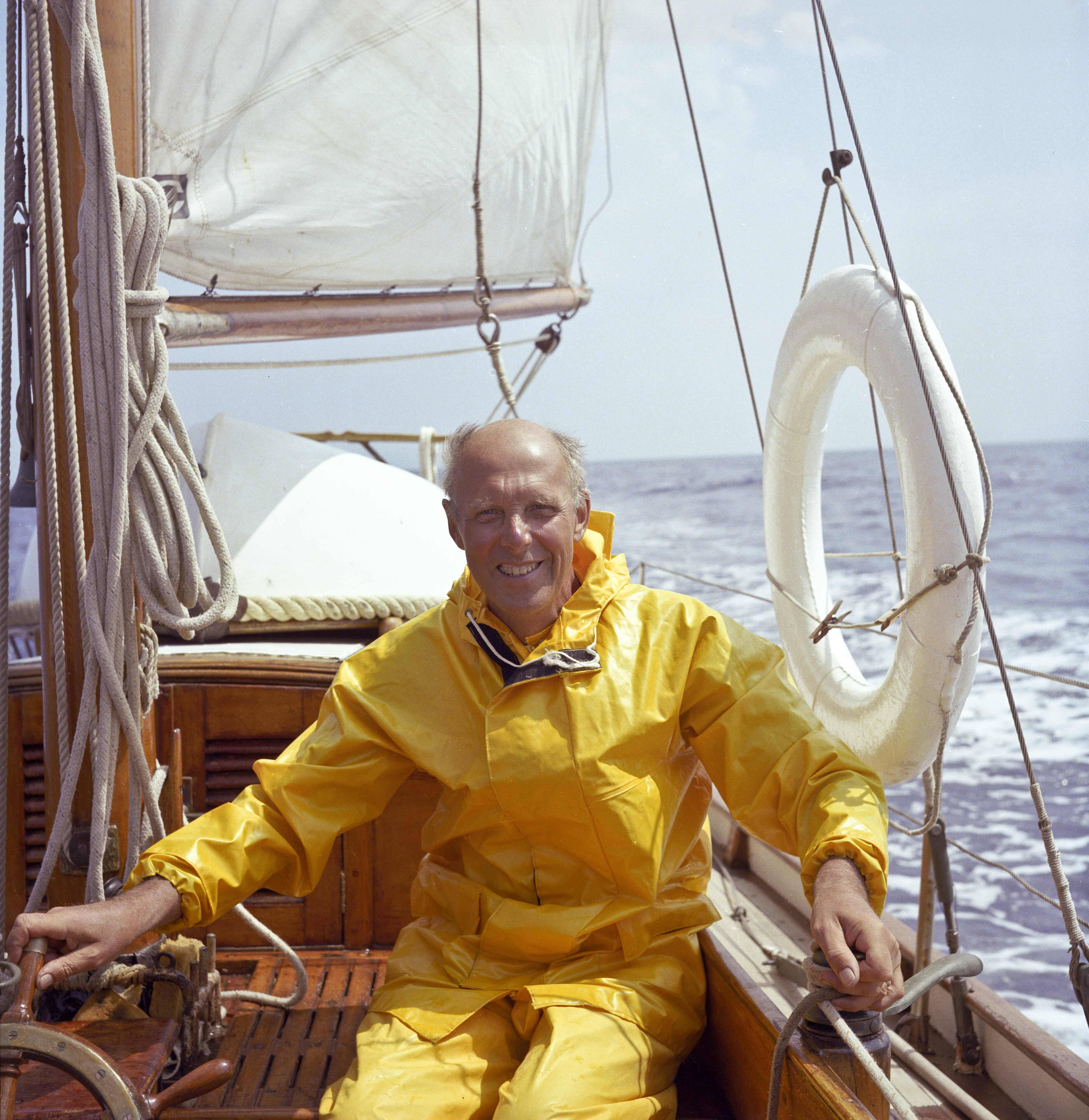 Photograph of the Finnish writer Göran Schildt (1917–2009) onboard S/Y Daphne.